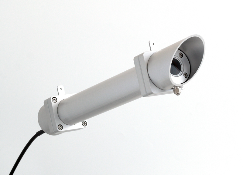 The DR01 is a research grade normal incidence direct solar irradiance sensor (also known as a pyrheliometer). Suitable for tracker mounted operation, the DR01 is intended for short-wave direct solar irradiance measurement of the sun. The DR01 is a "First Class" compliant pyrheliometer, as per the latest ISO and WMO standards.